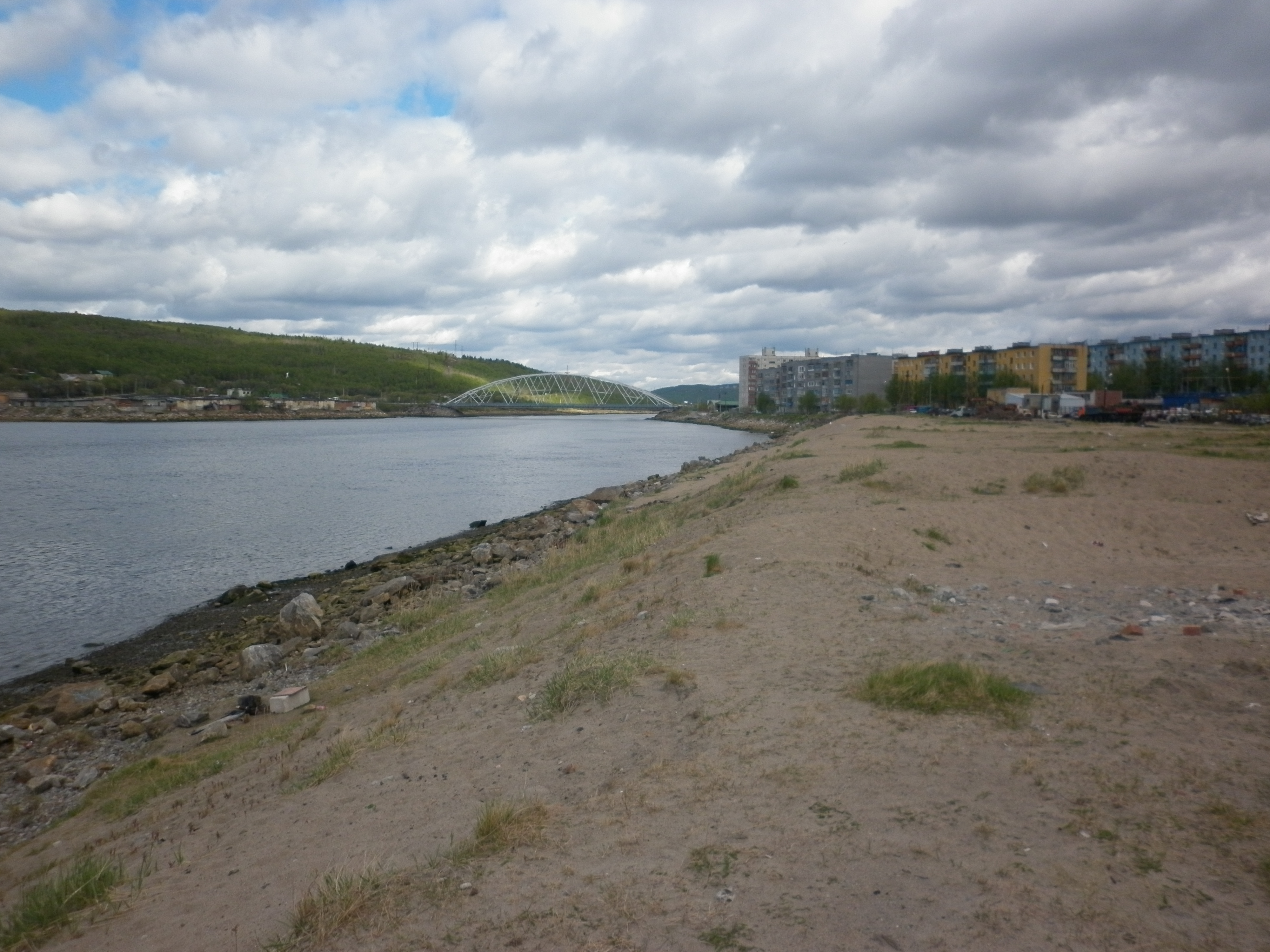 Река Тулома